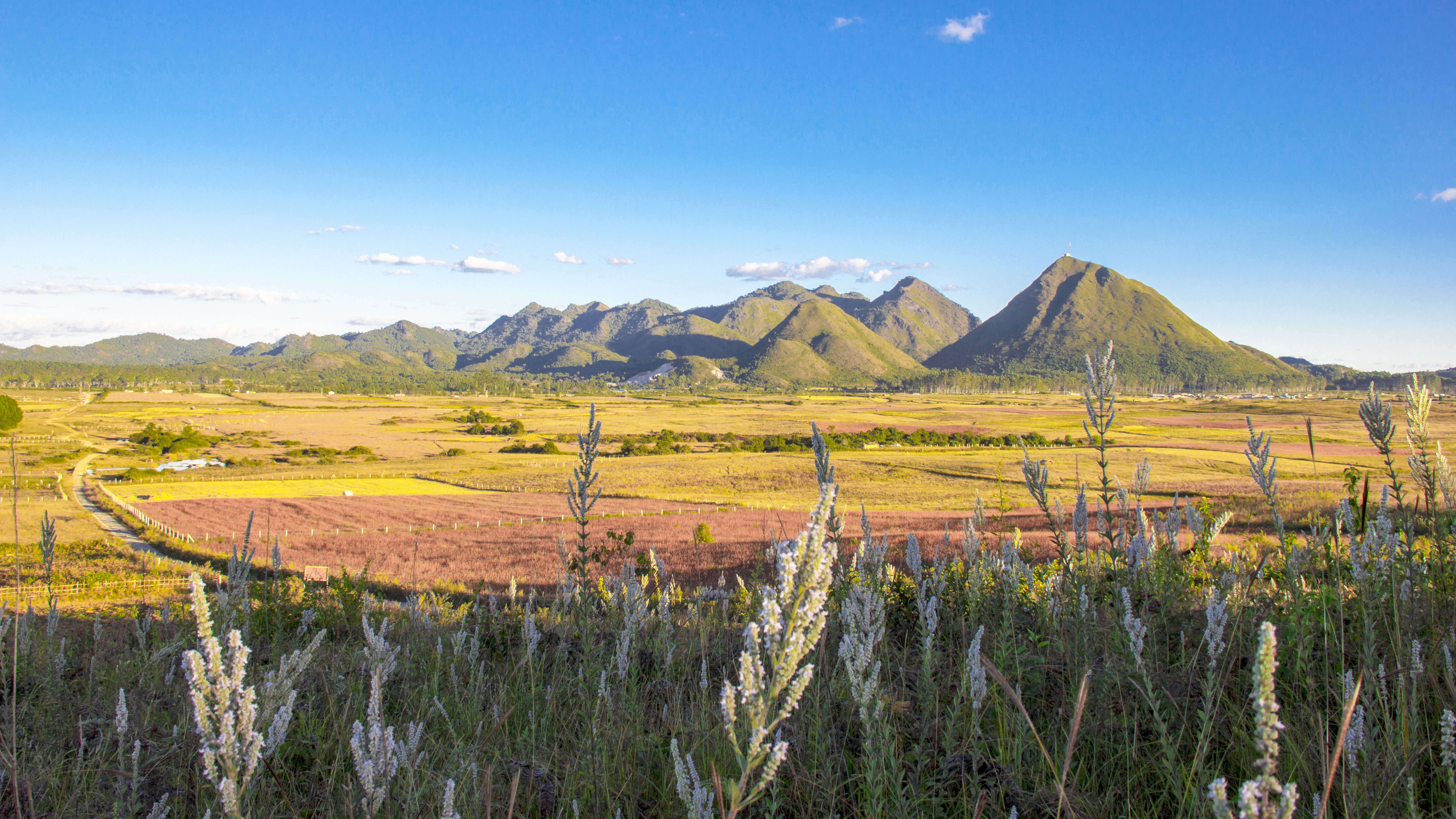 Mt' Loi Sam Sip mountain range, about sea level 6125 ft, Kutkai, Shan State ( Northern)